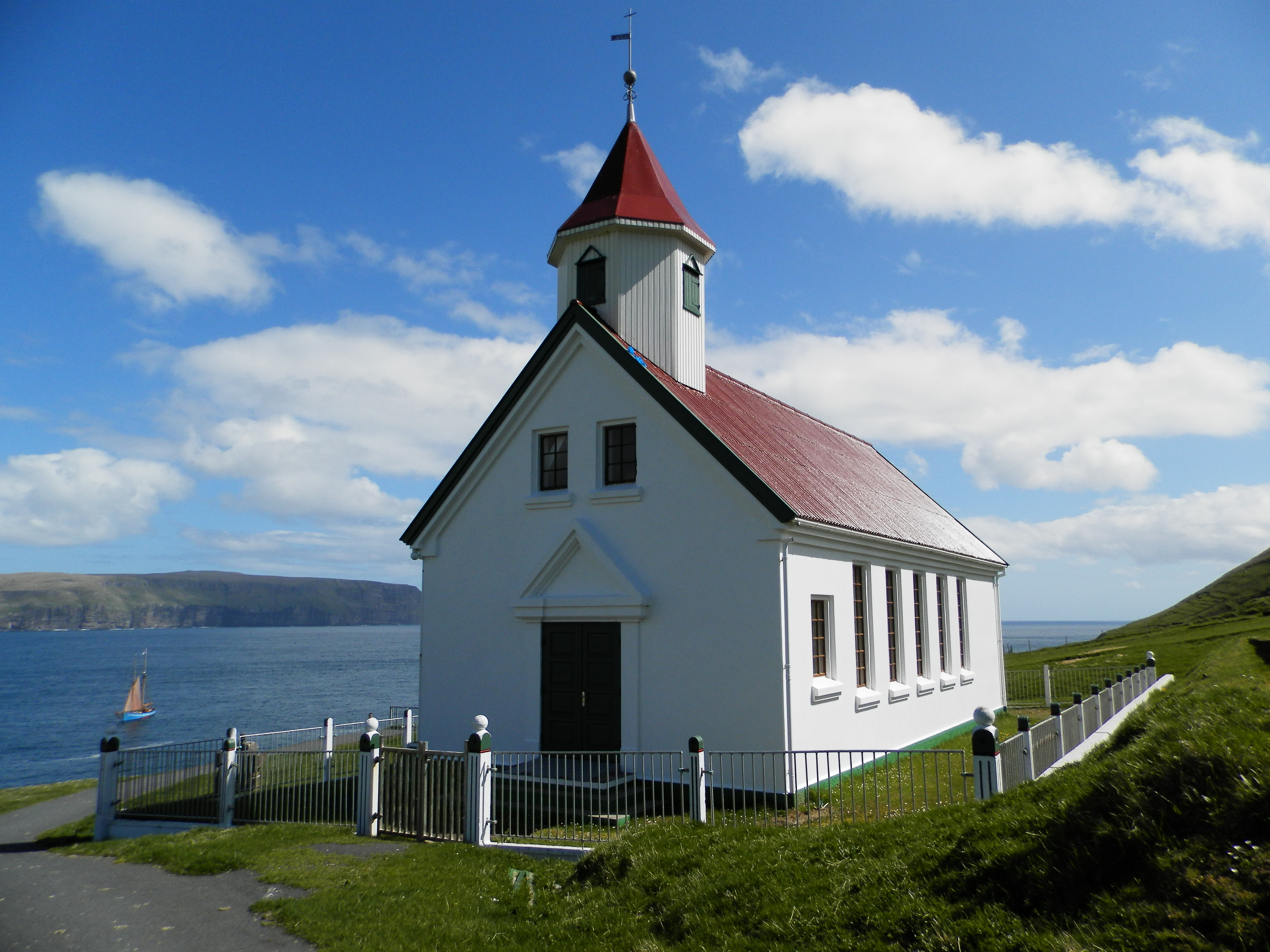 Skúvoy is a village on the island with the same name in the Faroe Islands. Some people call the island Skúgvi. The population as of 1 January 2013 was 36. This photo was taken on 1 June 2013.